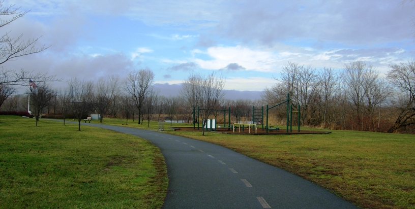 Photo taken by Andy M. Wang December 2006. Multi license with GFDL and Creative Commons.